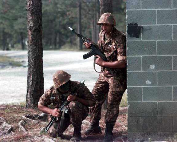 A pair of Ukbekistani troops prepare to charge a building and capture "rebel" forces as part of their mission during Exercise Cooperative Osprey '96. Fifteen former Soviet Union or Warsaw Pact nations trained with Dutch, Canadian and U.S. forces recently at Camp Lejeune, N.C. Master Sgt. Stephen Barrett, USA.